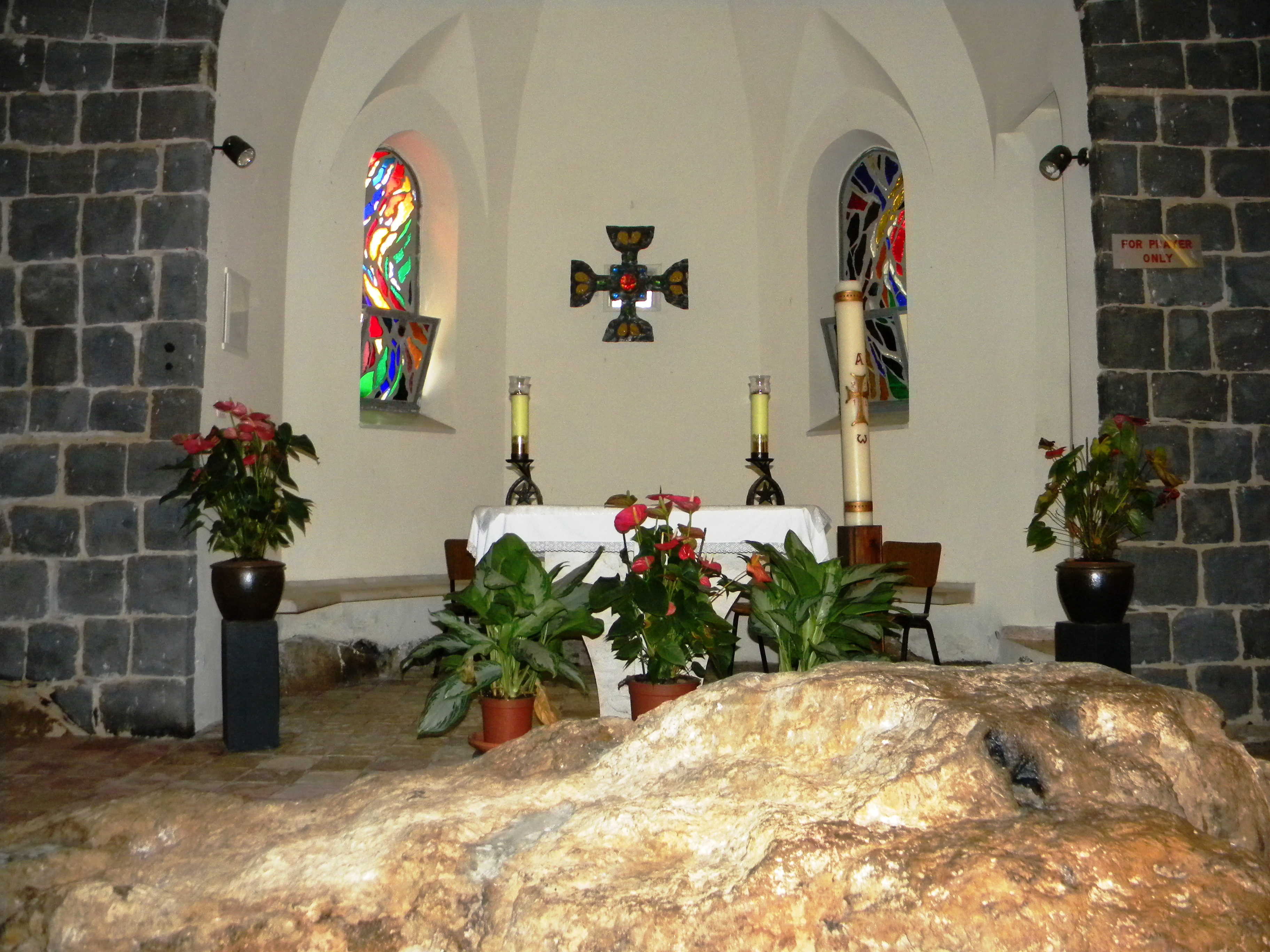 ISRAEL, Capernaum, Tabgha, Church of the Primacy of St. Peter; ID is 16-1252-103 (interior 3)